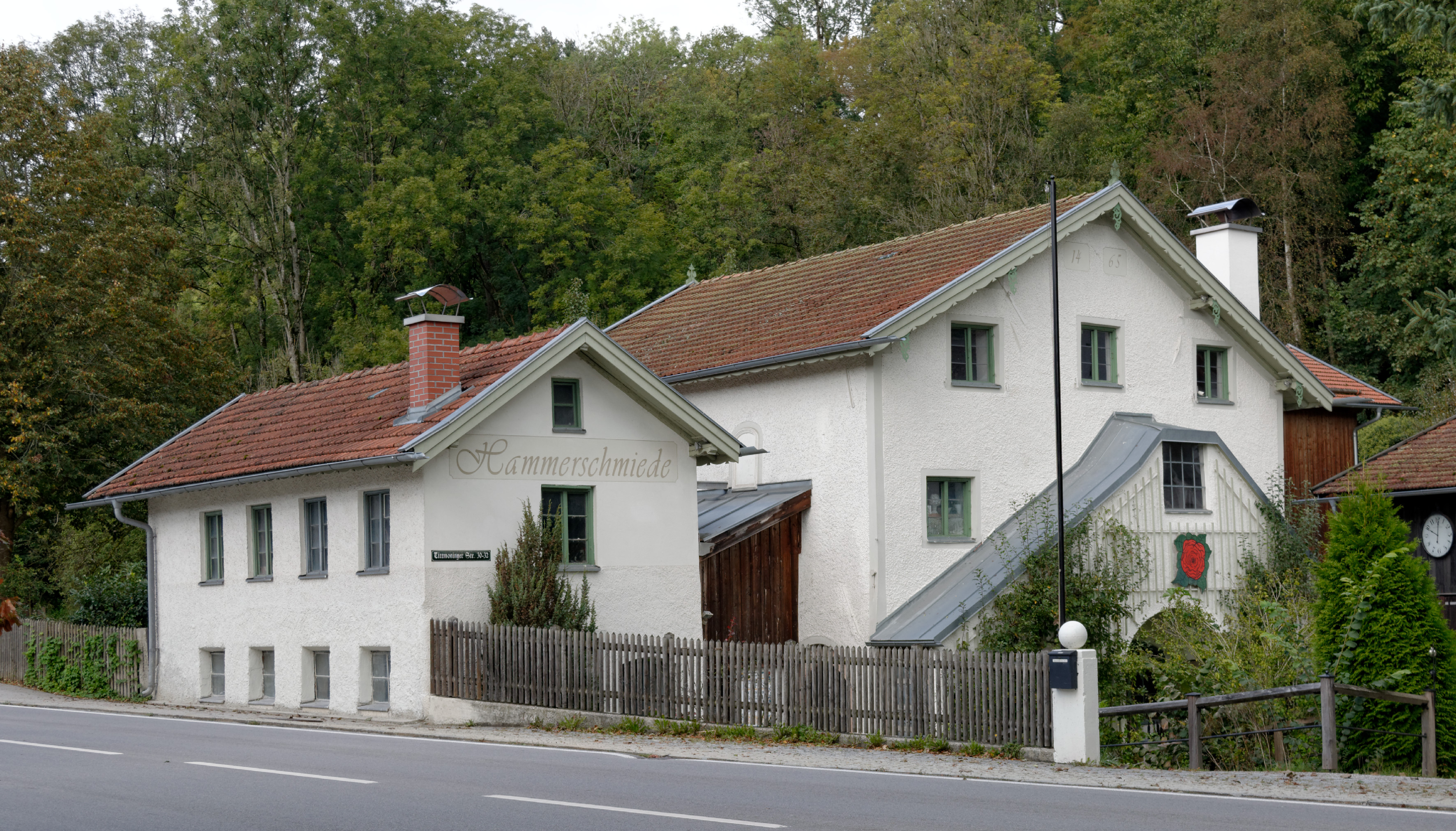 This is a photograph of an architectural monument.